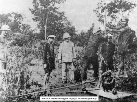 French plantation in Vietnam